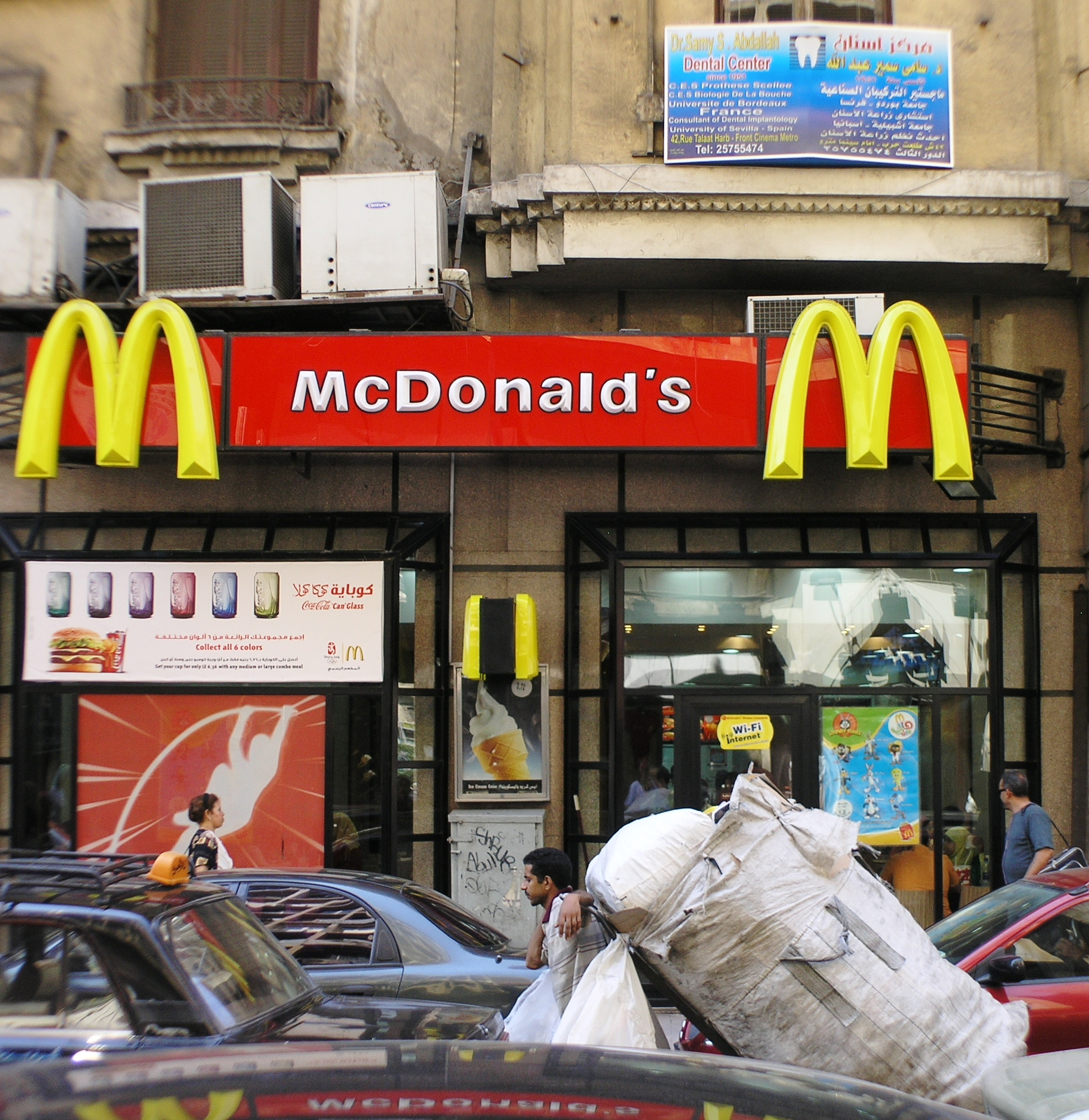 Cairo - Downtown - Talaat Harb St - McDonald's